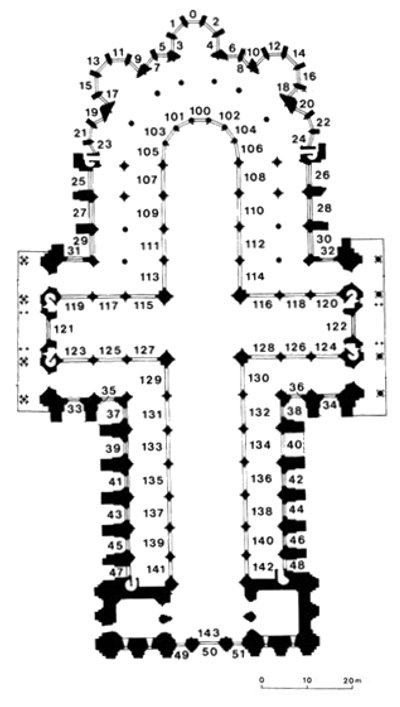 Situation plan of the stained glass of the Cathedral of Chartres